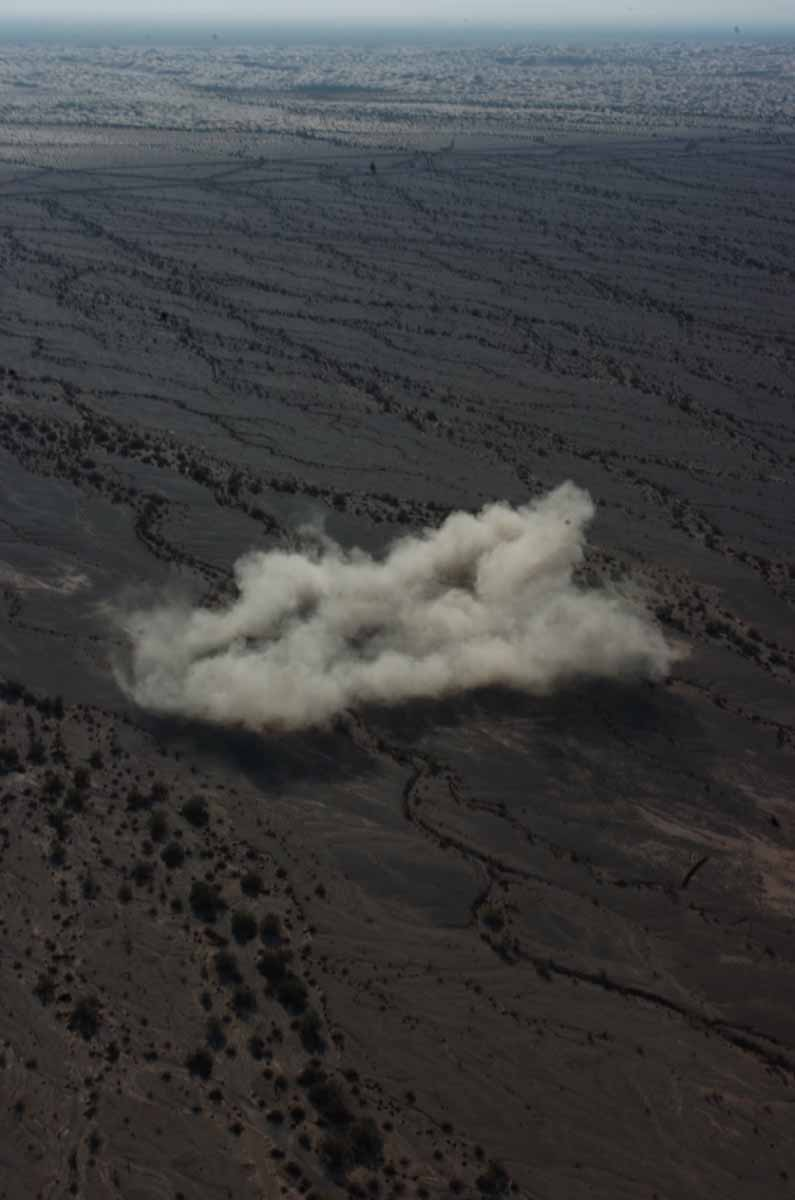 Dust picked up from the ground by the landing of a V-22 Tiltrotor aircraft. Marine Medium Tiltrotor Squadron 263 - Deployment for Training - NAF El Centro, CA